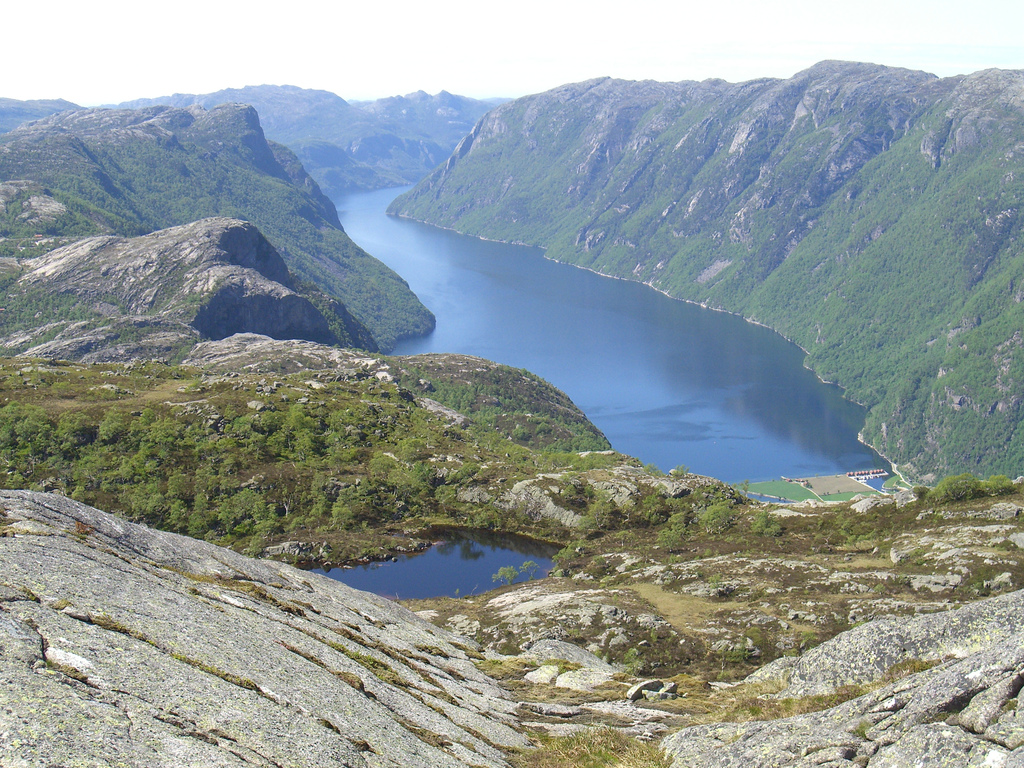 750 meters down to the fjord